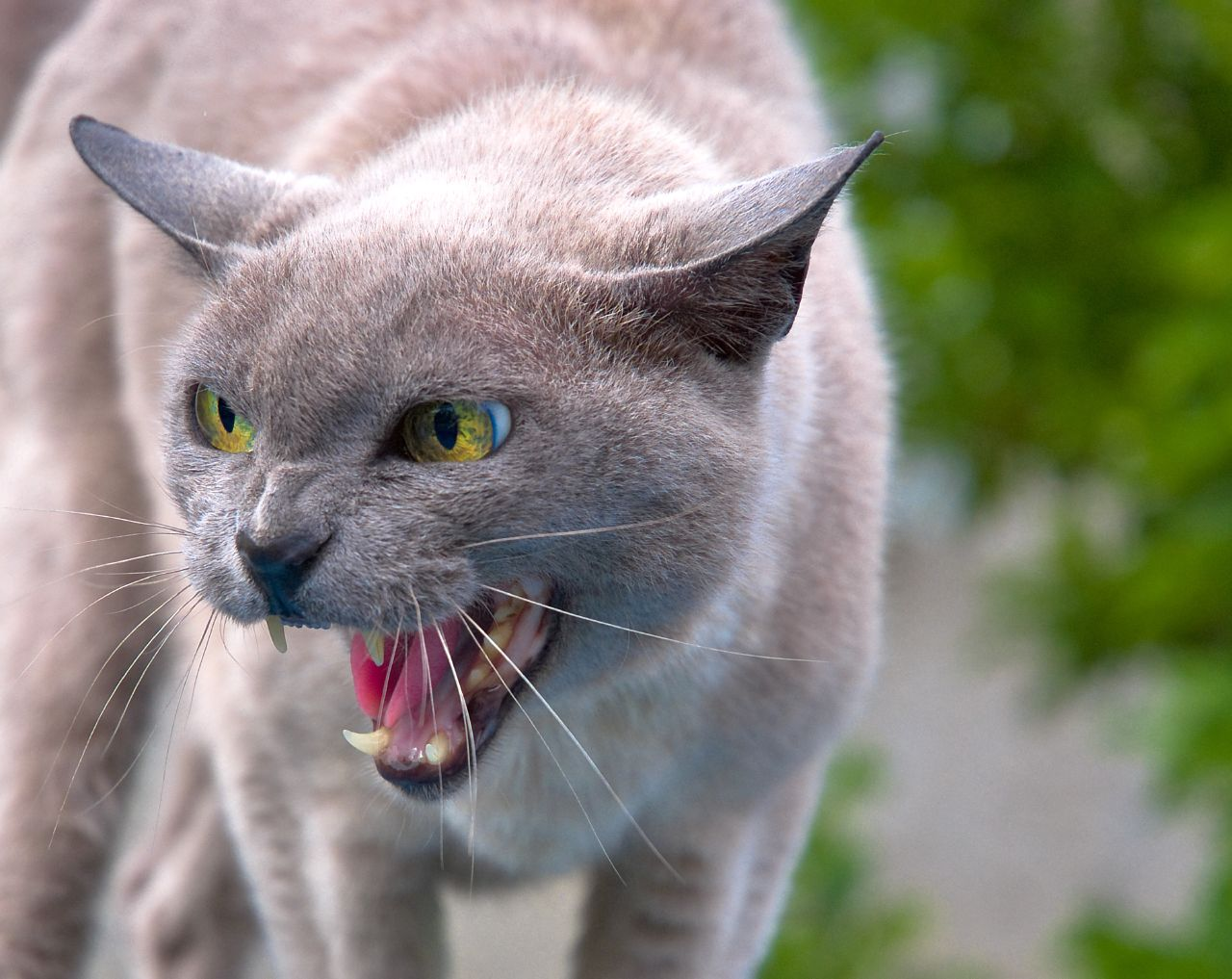 Angry cat - This image is not edited